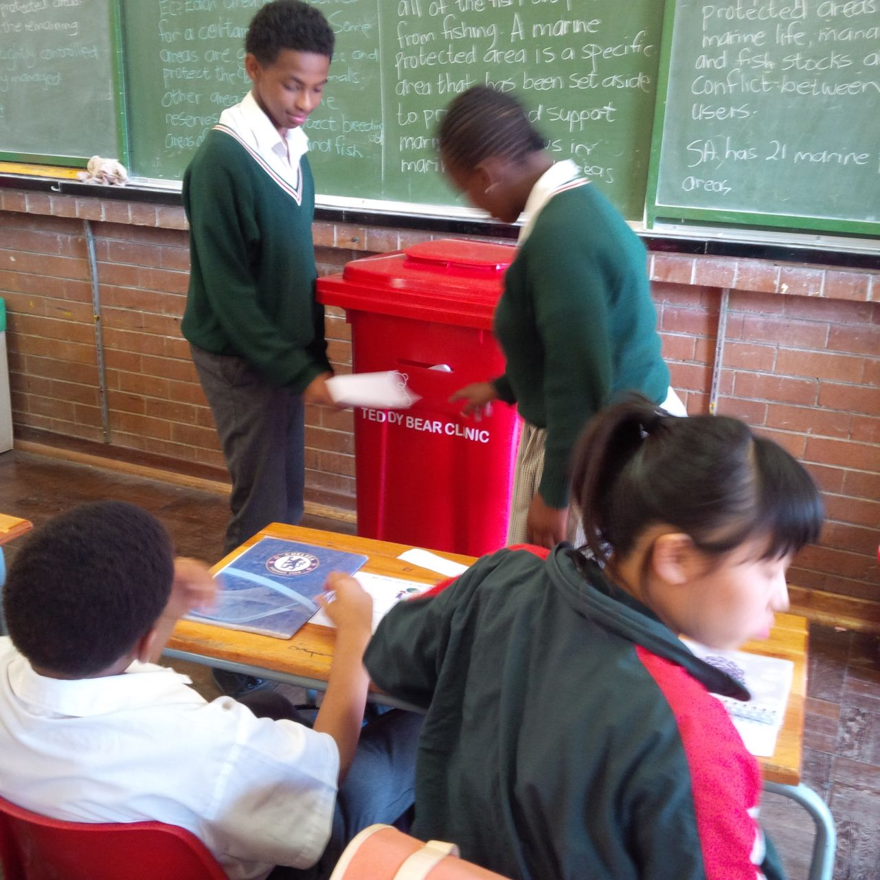 Join Article 25 by signing up at